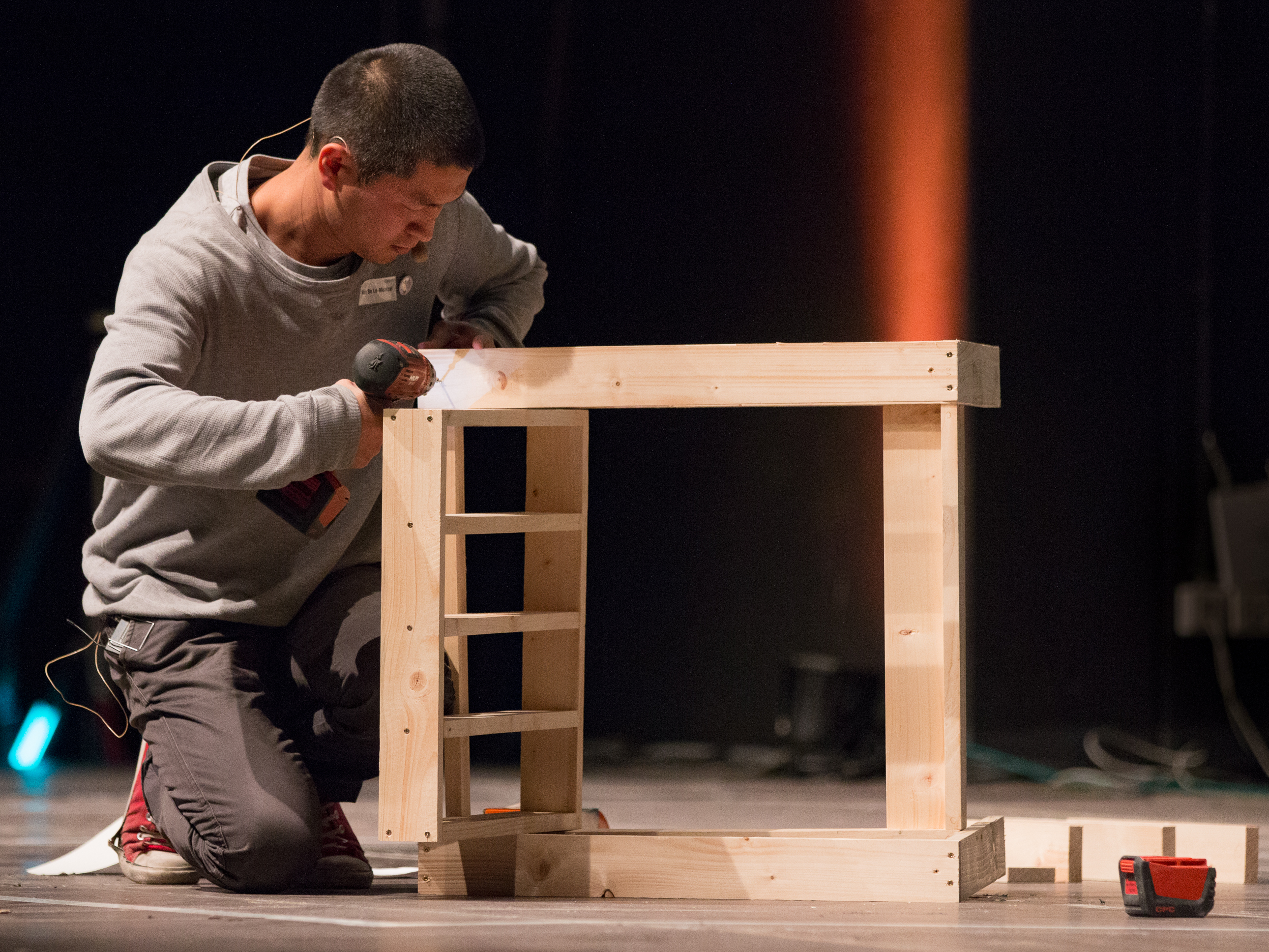 Van Bo Le-Mentzel at the See-Conference 2015 in the Schlachthof Wiesbaden